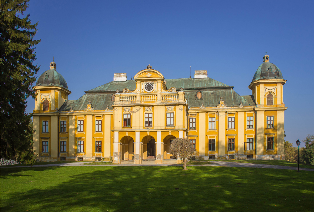 Castle